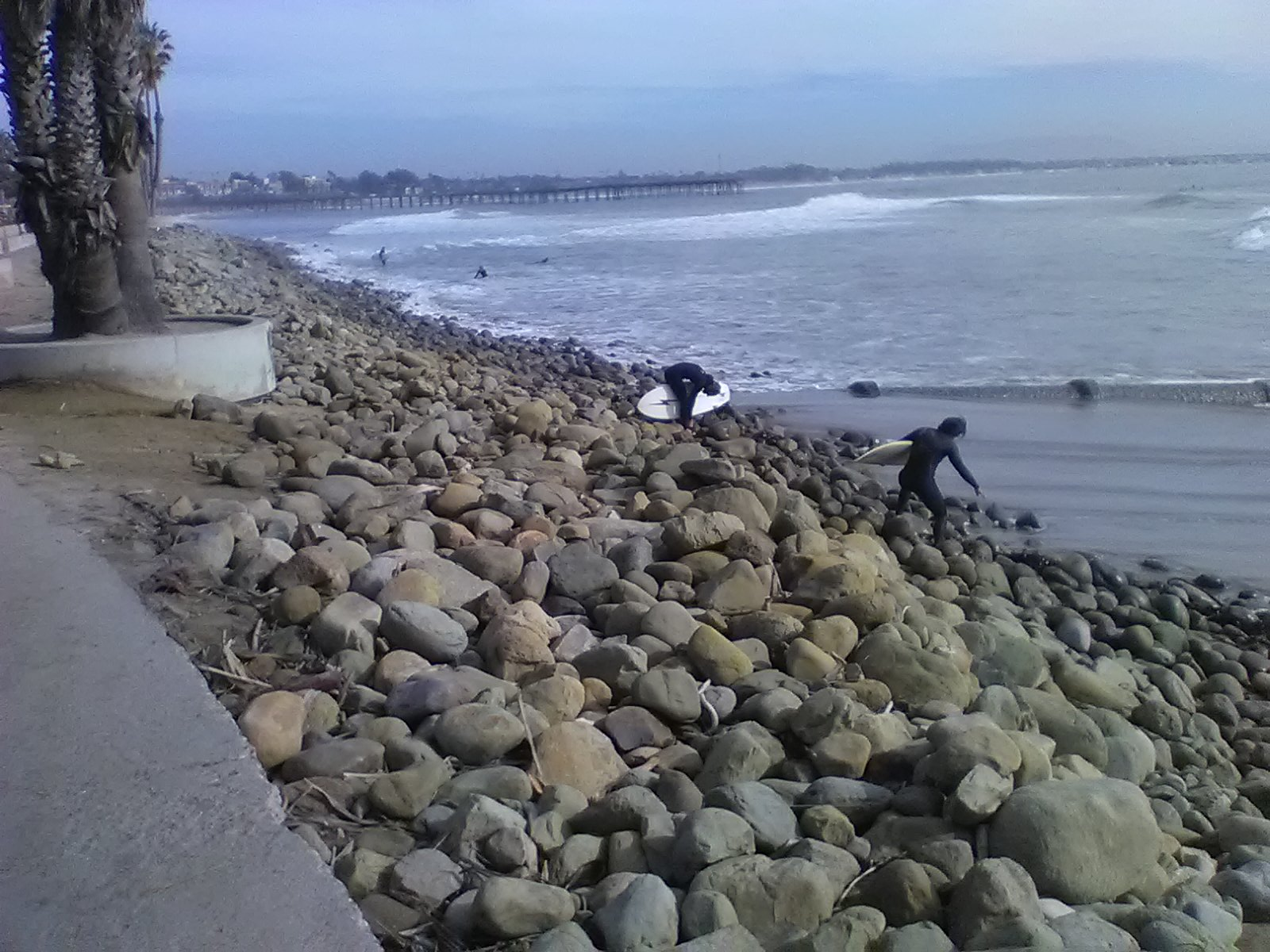 Surfers Point, Ventura CA dynamic revetment 2020 looking south